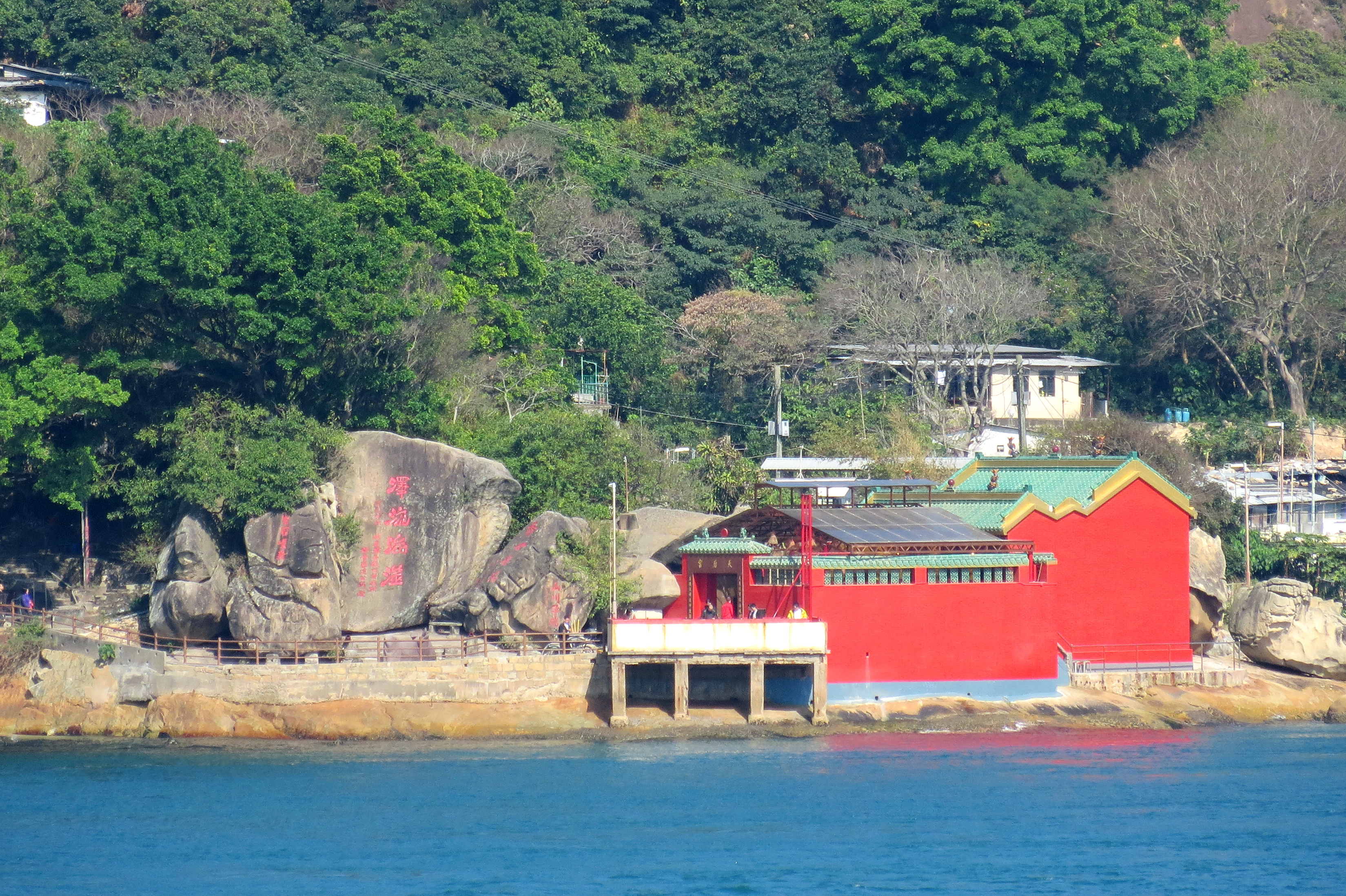 Lei Yue Mun Tin Hau Temple, Hong Kong.